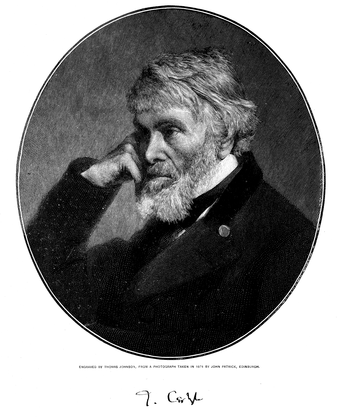 Thomas Carlyle (engraving)